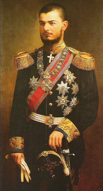 Alexander I Obrenović of Serbia by Heinrich Wassmuth, 1894